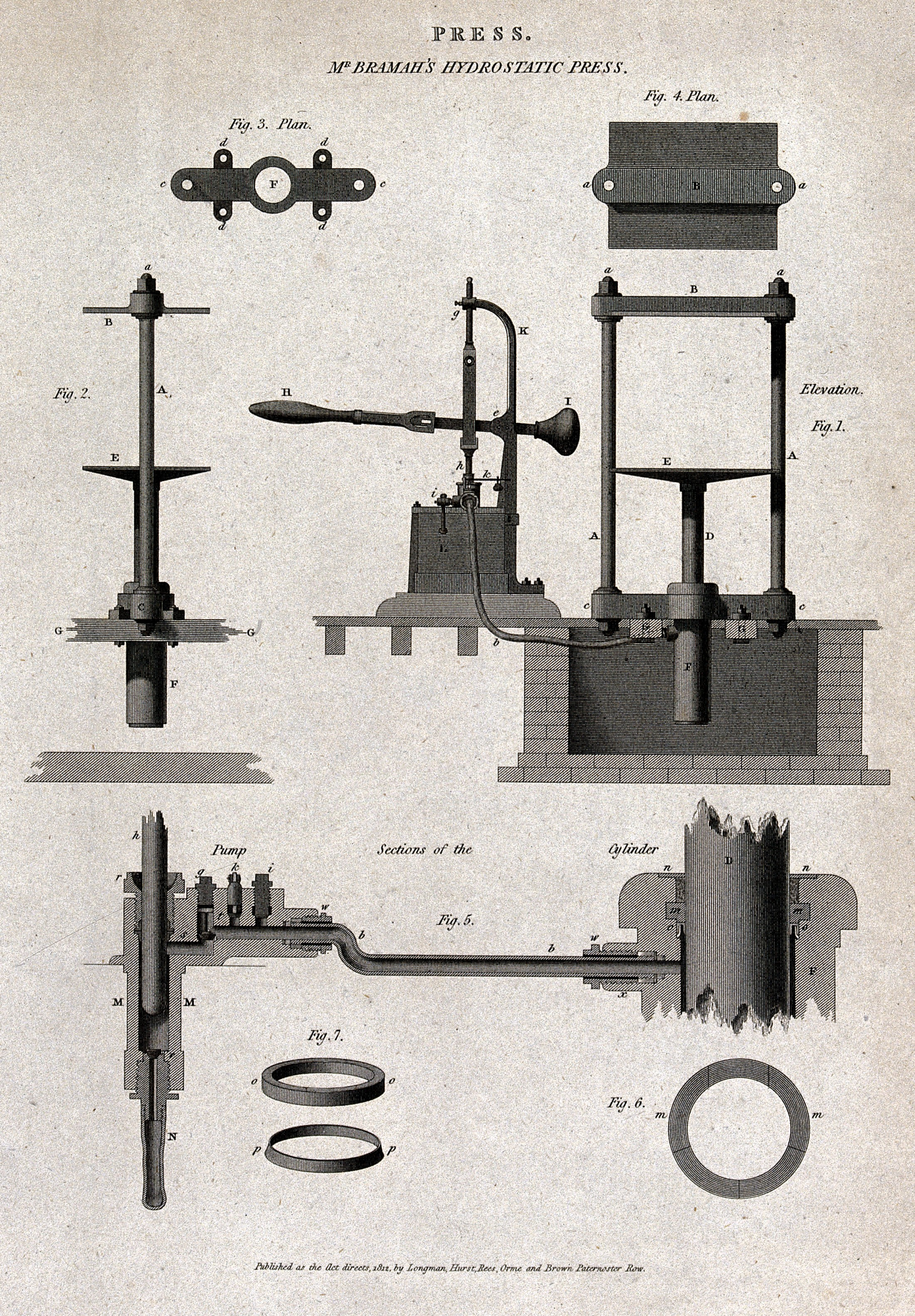 Hydraulics: section and details of the Bramah hydrostatic press. Engraving by Lowry after J. Farey. Iconographic Collections Keywords: John Farey; Joseph Bramah; Lowry